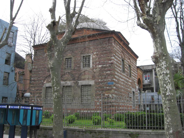 Rear view of Köprülü library, at Piyer Loti Caddesi, corner of Divan Yolu Caddesi opposite the Sultans Türbe.